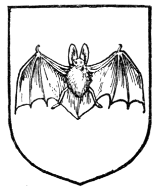 Fig. 413.—Bat.